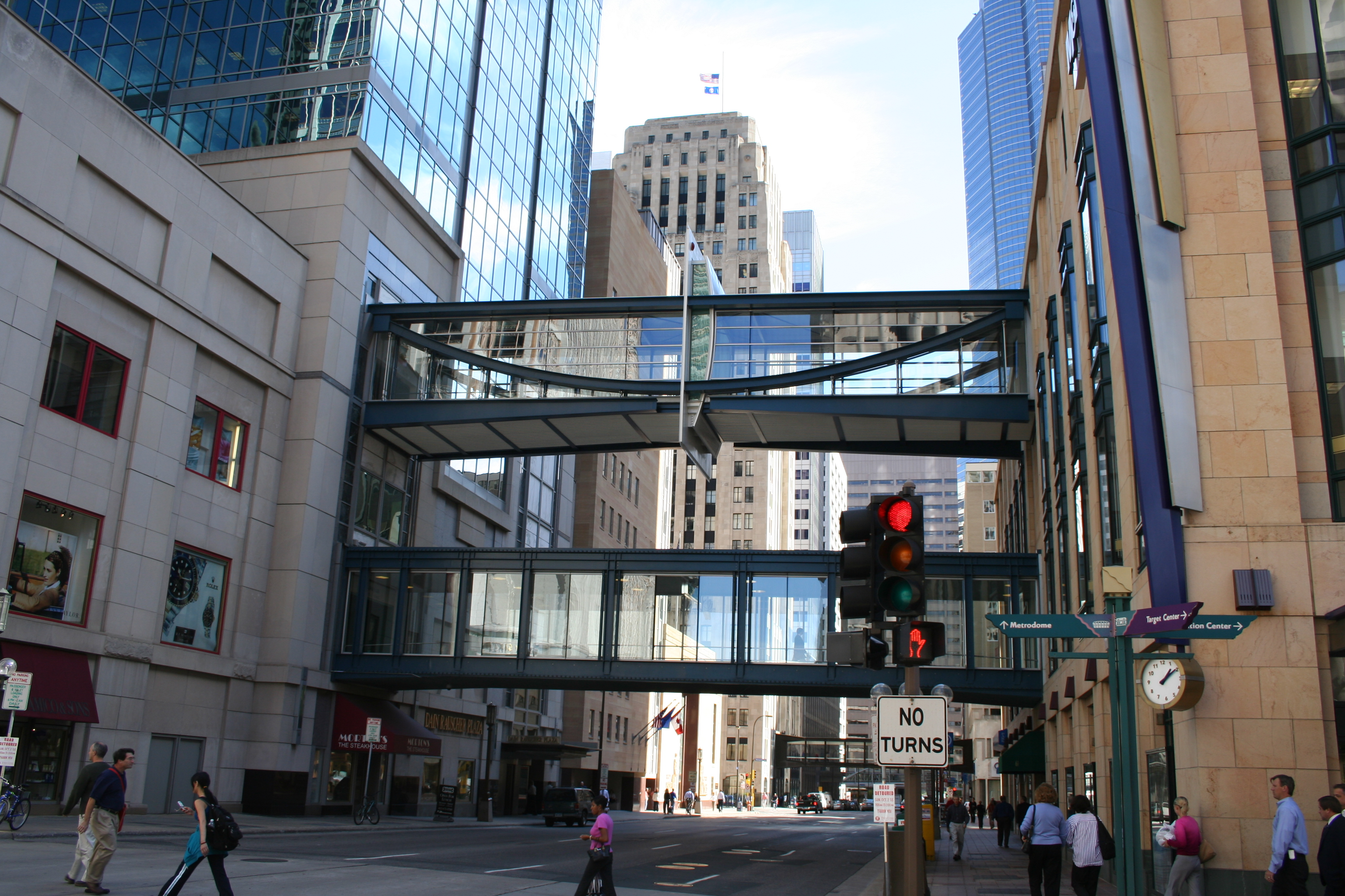 Skyways connecting the two wings of Gaviidae Common over 6th Street, Minneapolis, Minnesotadouble-decker skywalk